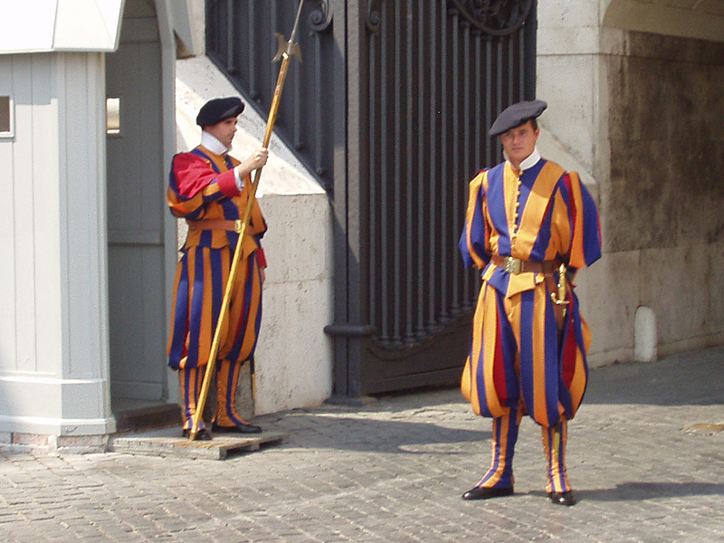 Swiss Guards beside St. Peter's Cathedral, Vatican City.